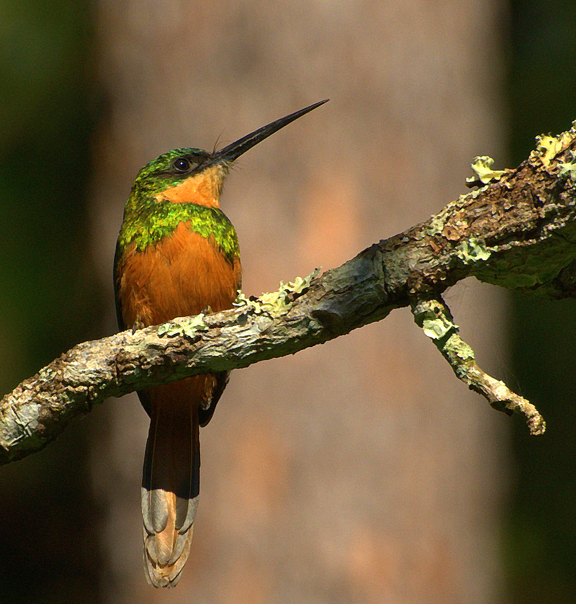 A female Rufous-tailed jacamar in Reserva Ambiental, Piraju-SP, Brazil